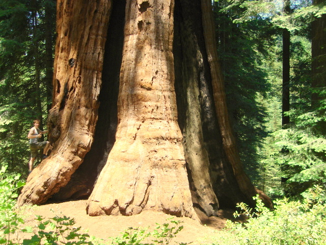 The base of the Stagg Tree, Alder Creek Grove, Sierra Nevada, California